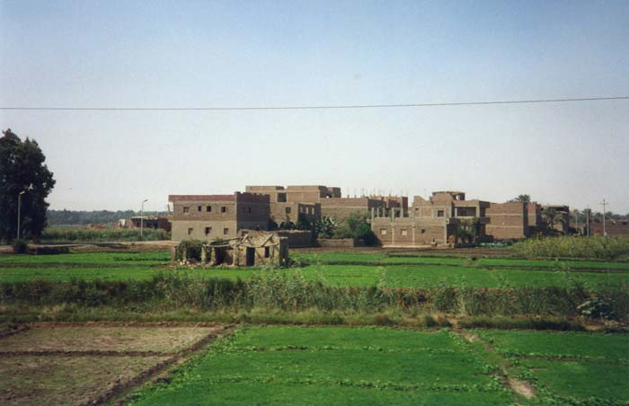 Photo of Egypt countryside south of Cairo